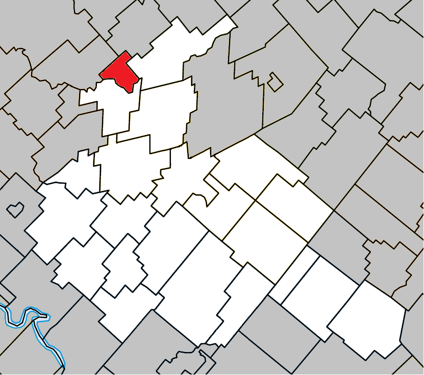 Location of Maddington, Quebec within Arthabaska Regional County Municipality.